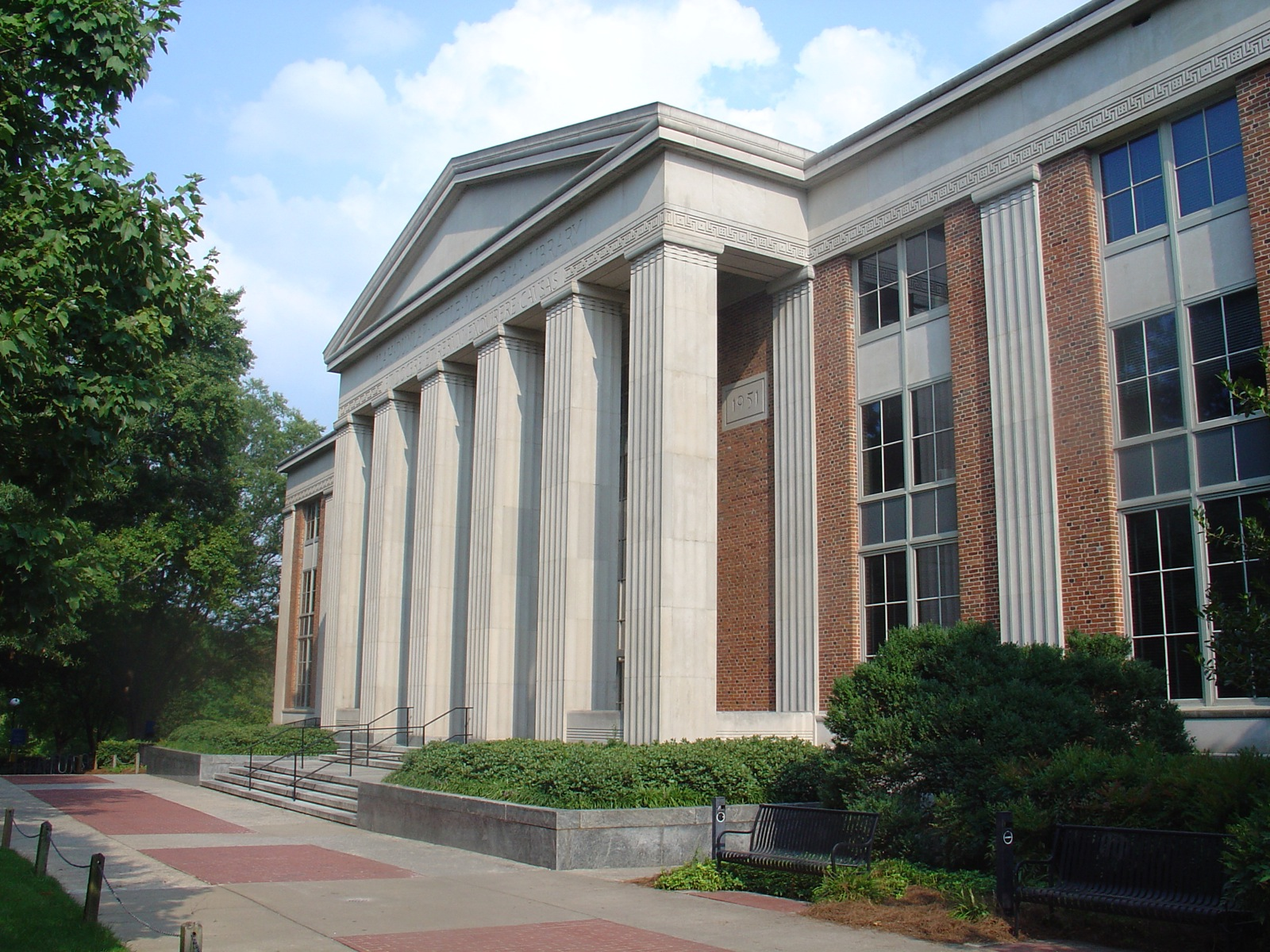 UGA Main Library.